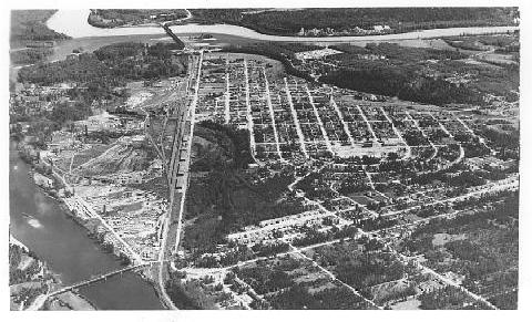 Photographer: Unknown Photo taken:1930's Source:2002.44.3 [1]